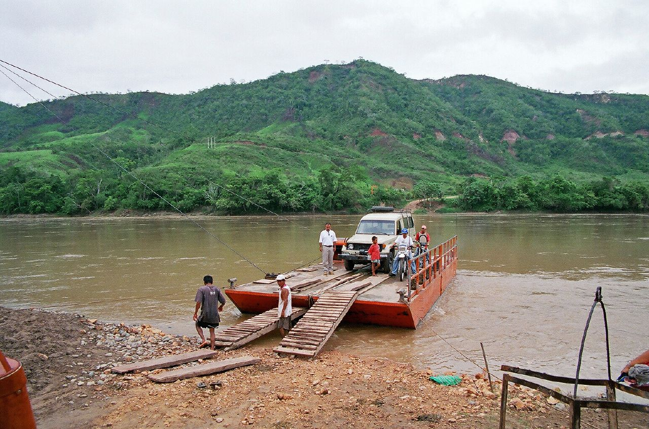 The Huallaga River in Peru